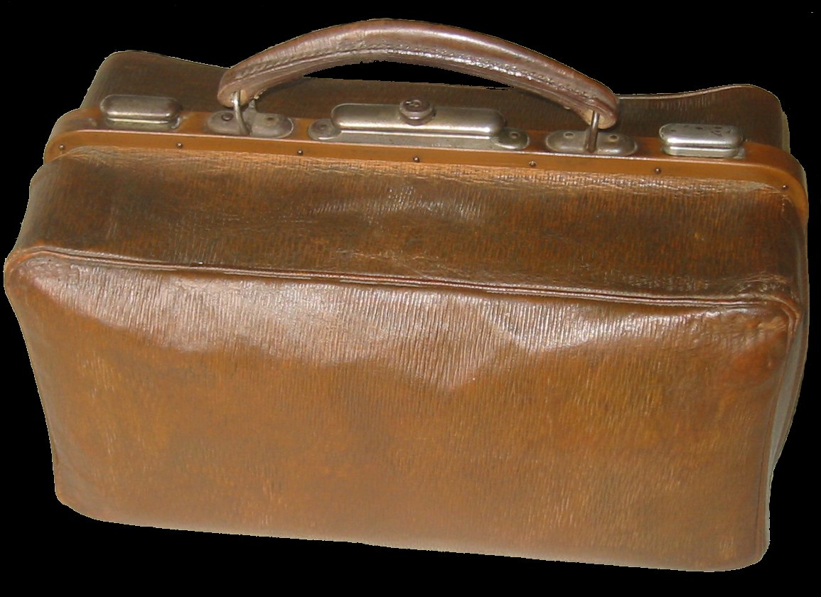 Photo of luggage